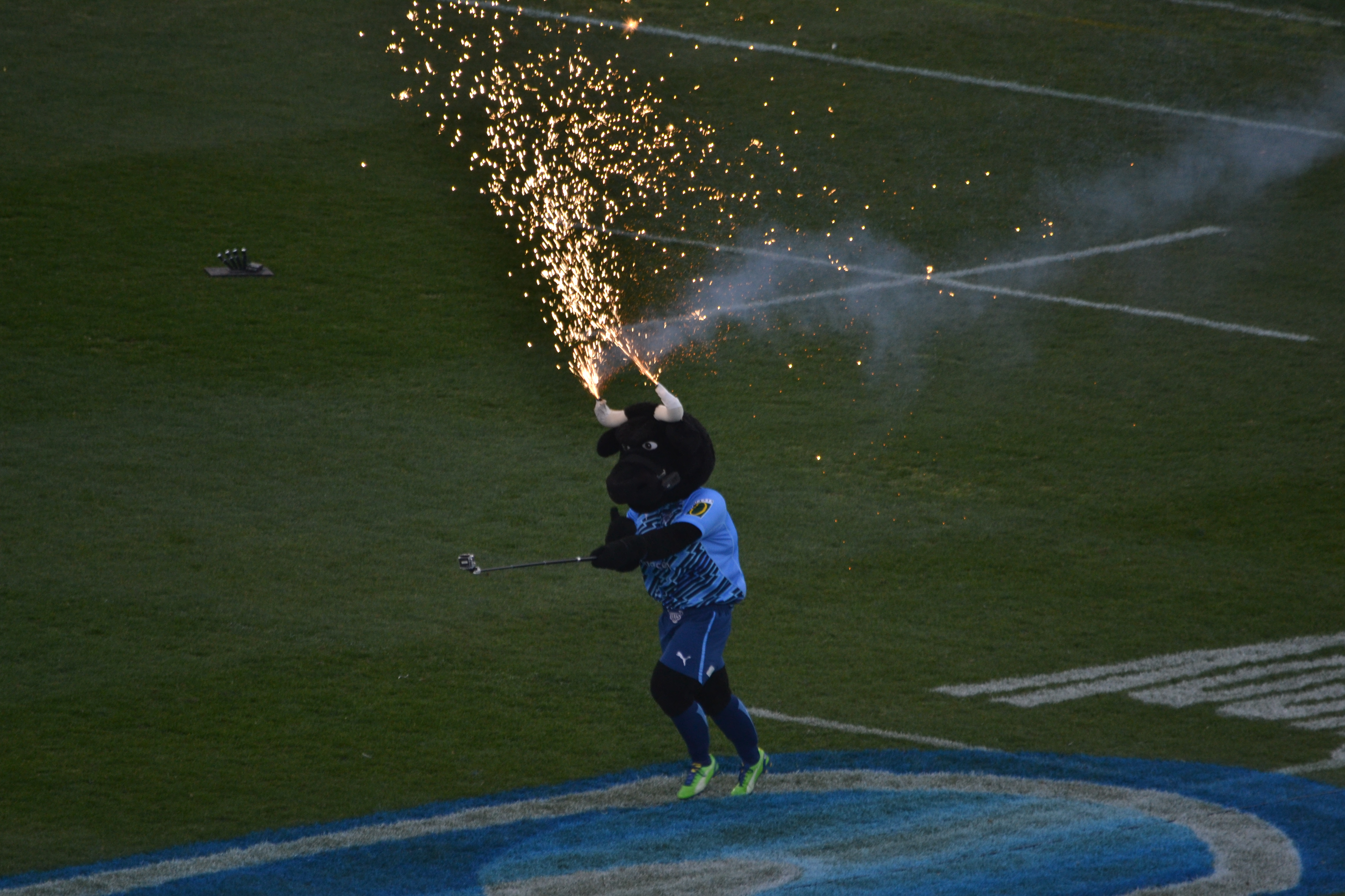 The Vodacom Bulls team to face the Brumbies